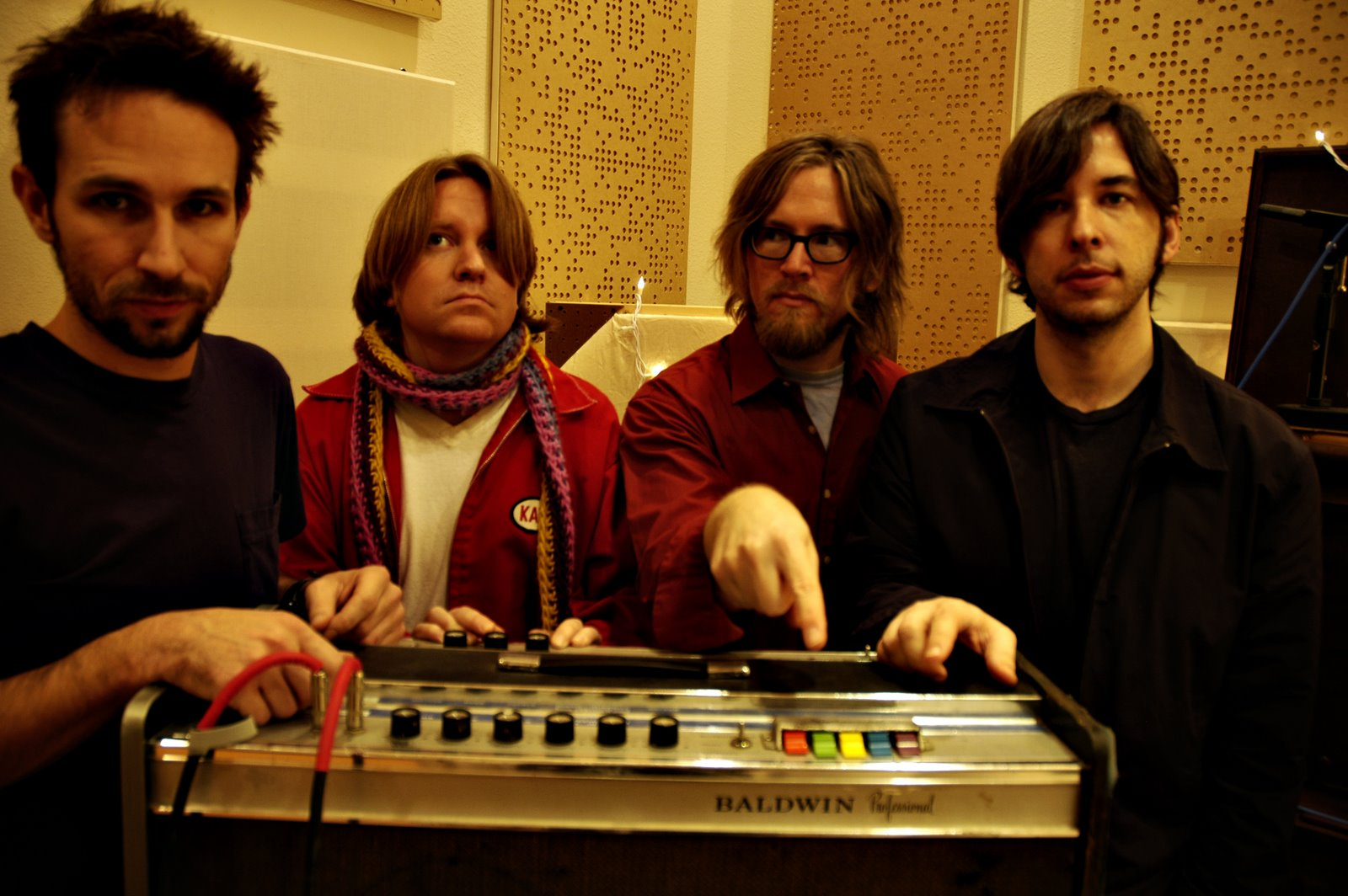 centro-matic at the echolab